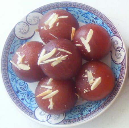 Gulab Jamun, an Indian dessert